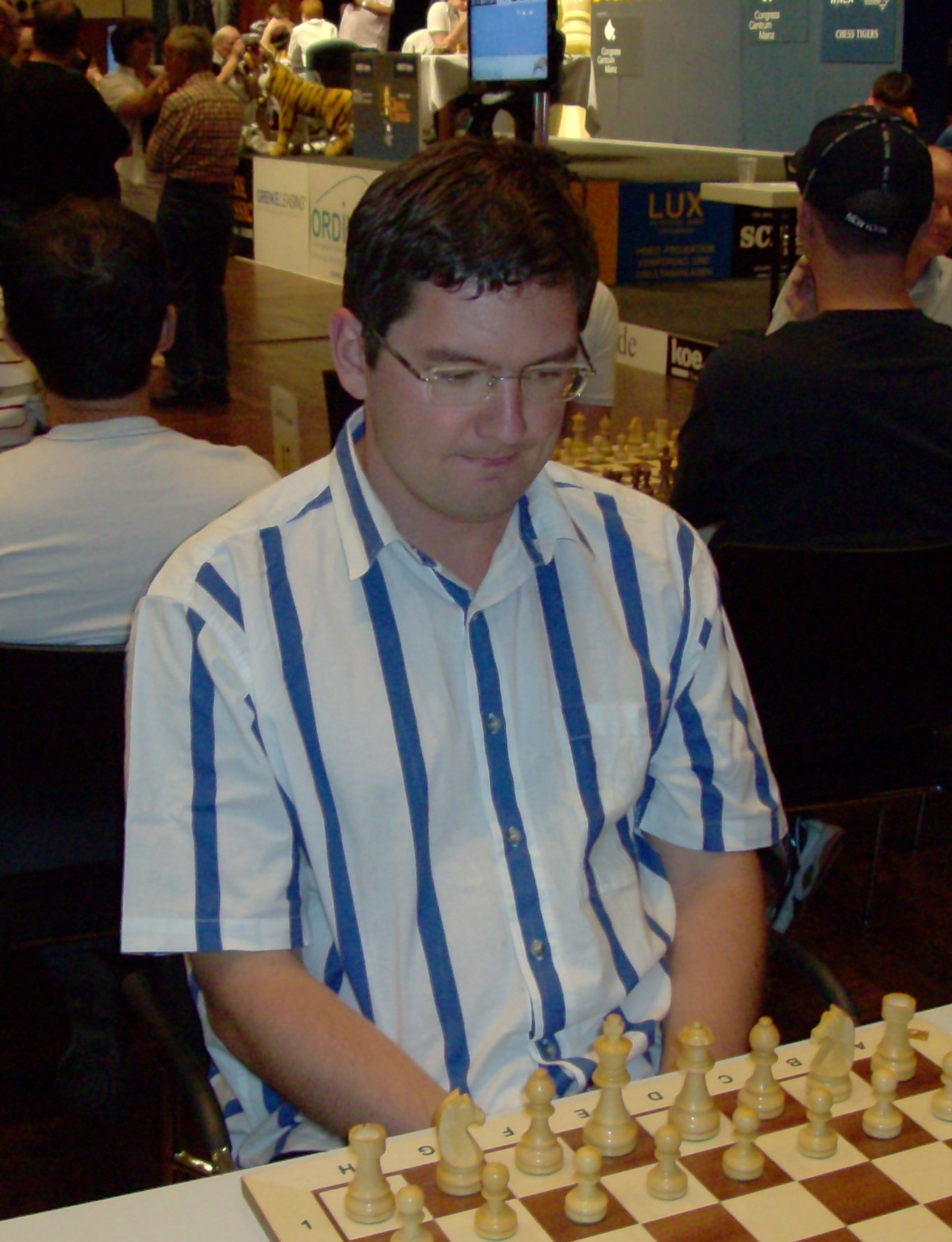 Alexander Moiseenko, chess grandmaster from Ukraine